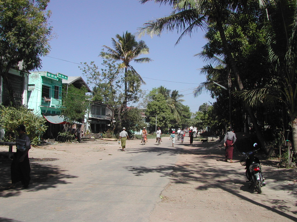 Street of Pyay, Myanmar.